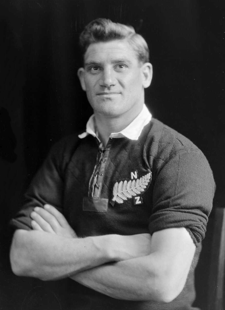 Photograph of All Black Andrew White, taken by Crown Studio Ltd of Wellington.